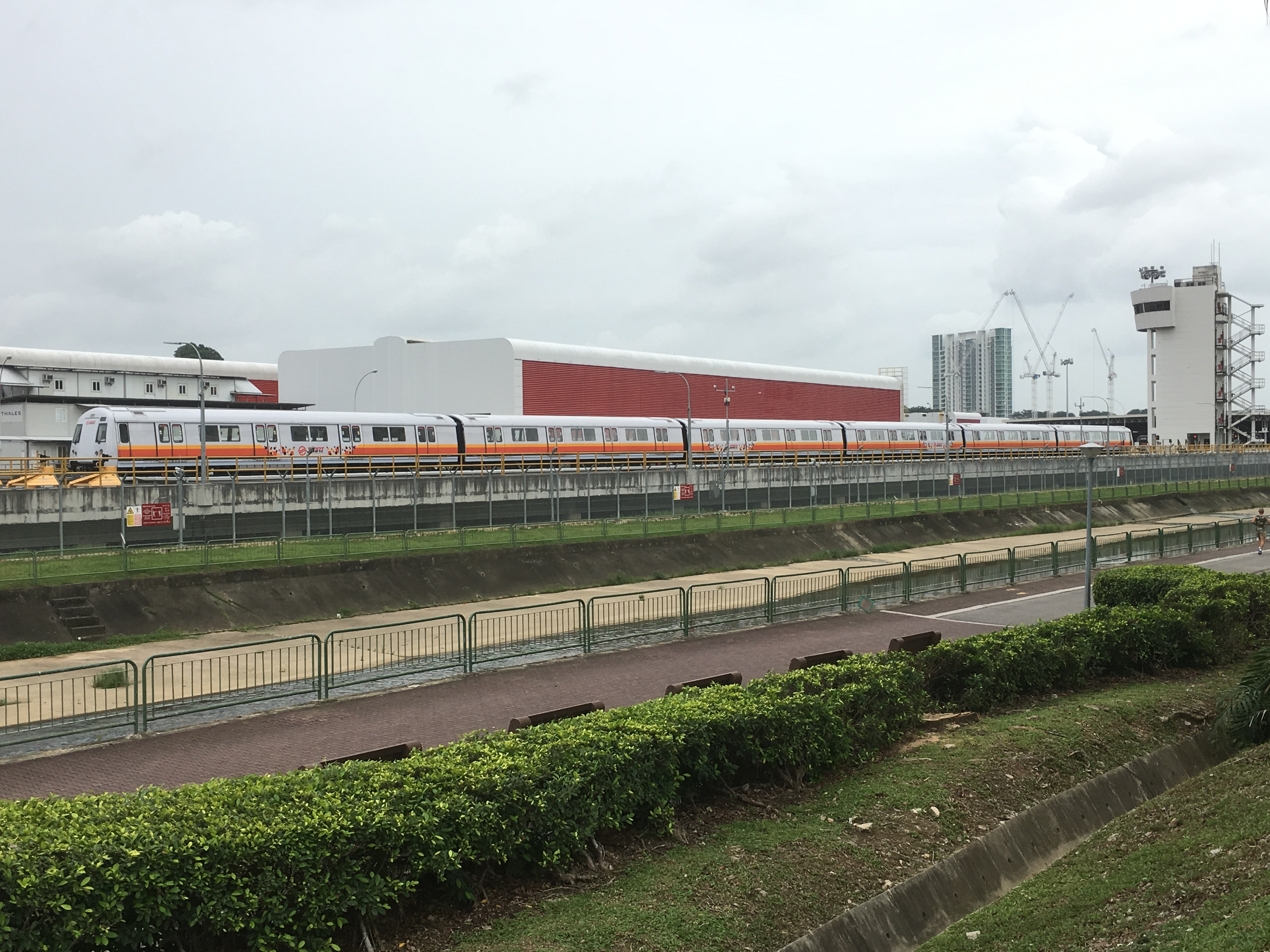 Exterior image of the c151b rolling stock for singapore mrt